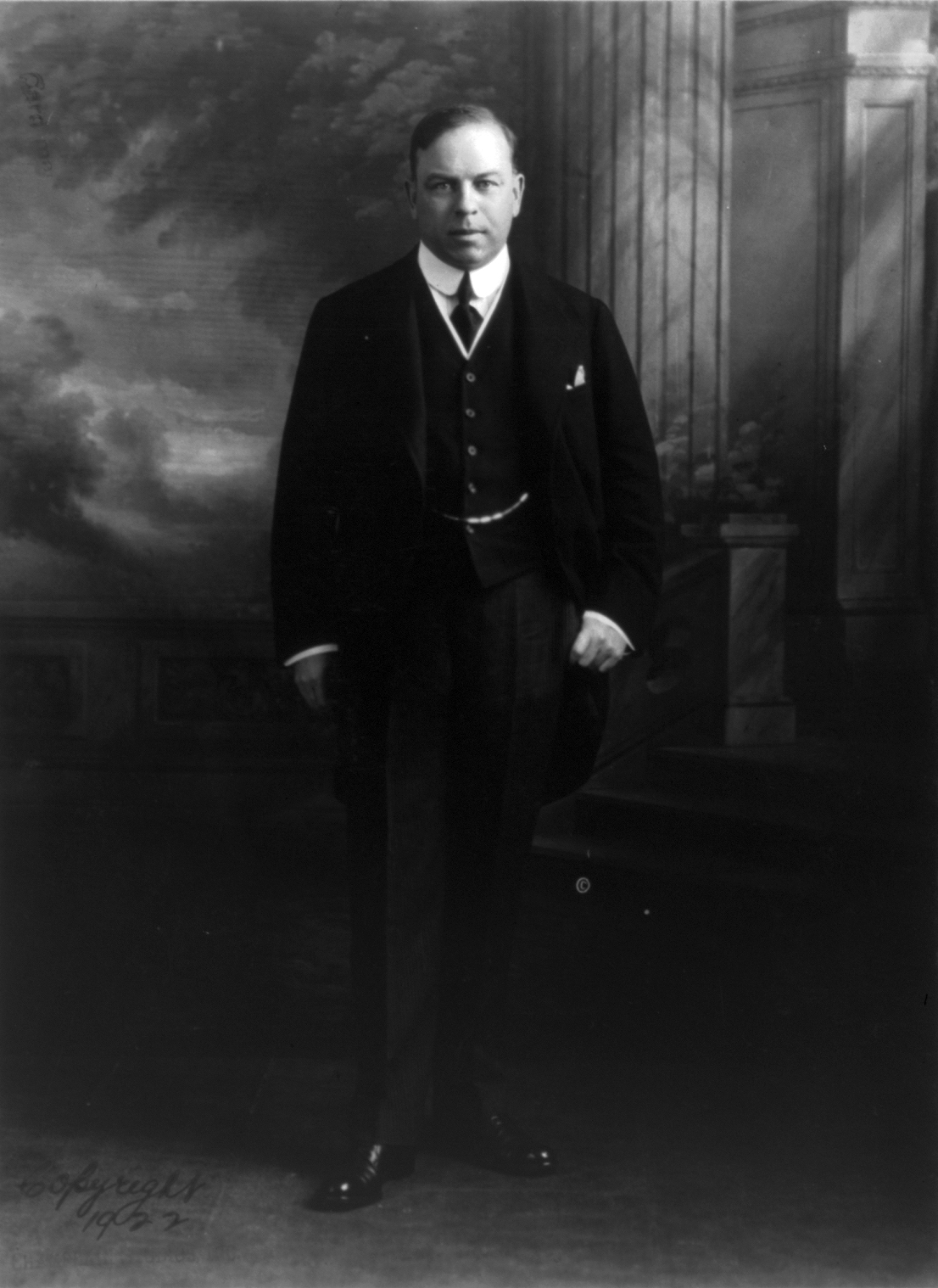 Hon. W.L. Mackenzie King, Leader of the Liberal Party of Canada.